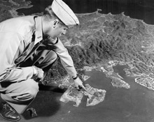 Preparation of Special Briefing Films. Photo: National Archives and Records Administration (NARA)